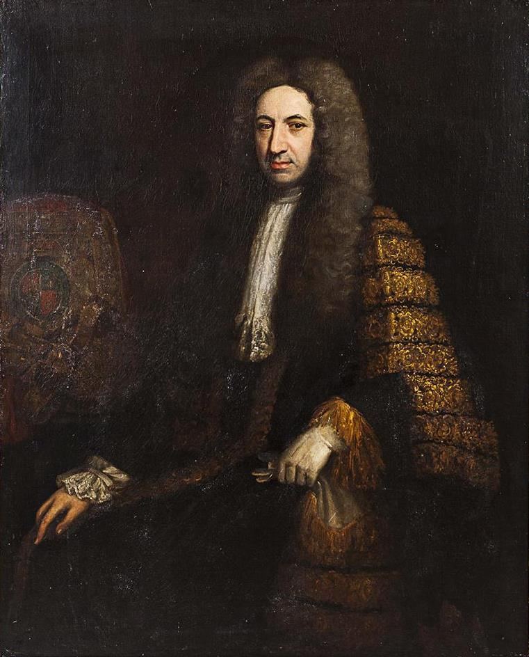 Portrait of Peter King, 1st Baron King (1669-1734), Lord Chancellor